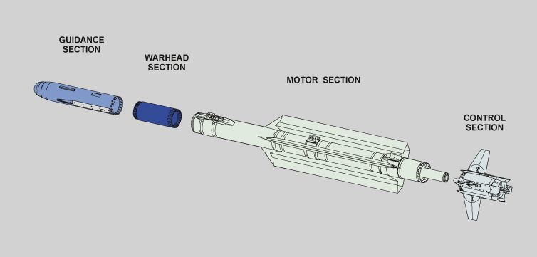 Component view of IRIS-T subassemblies